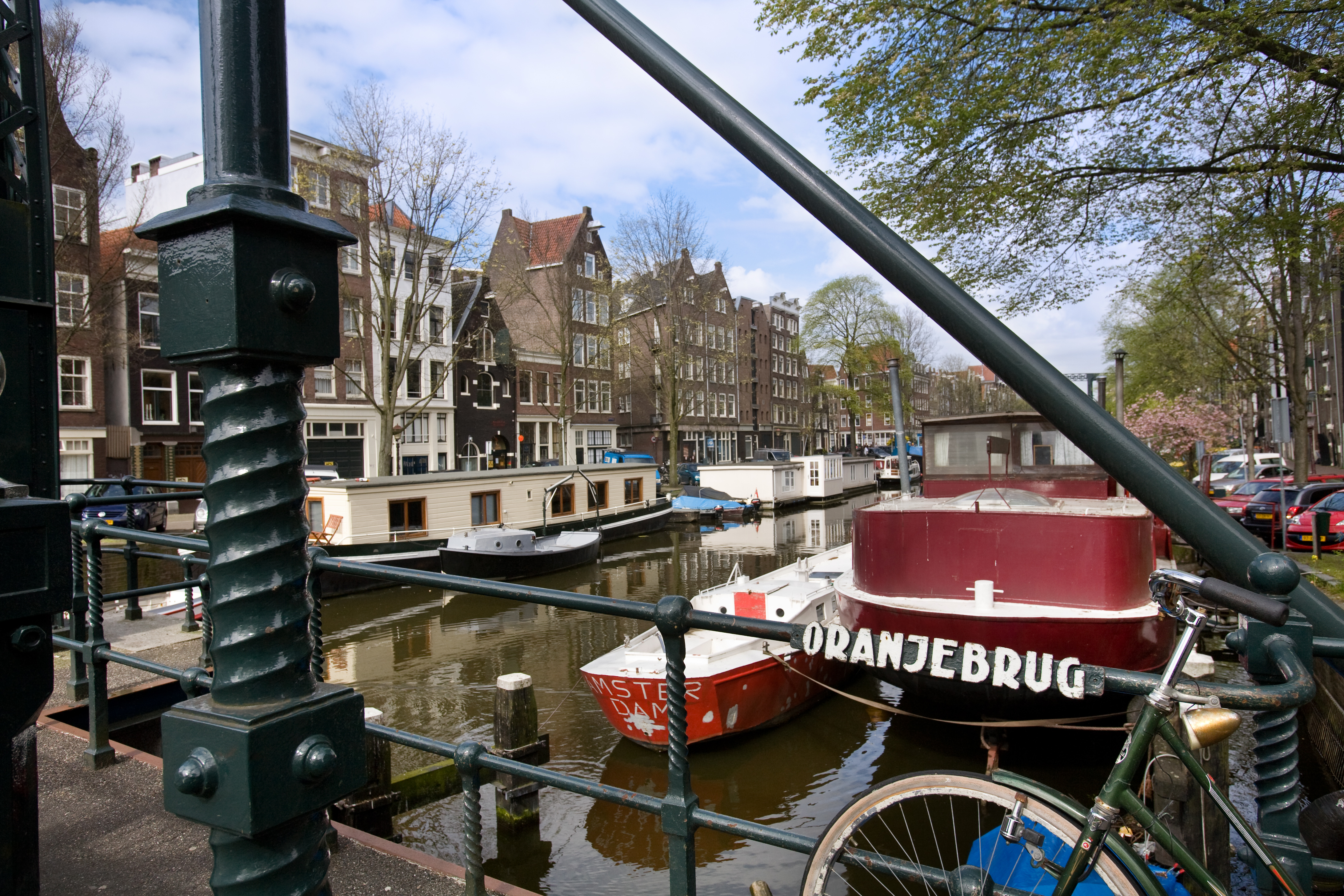 Oranjebrug Bridge, Amsterdam, The Netherlands